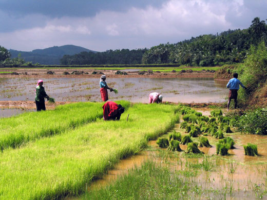 A panoramic view of Anakkara